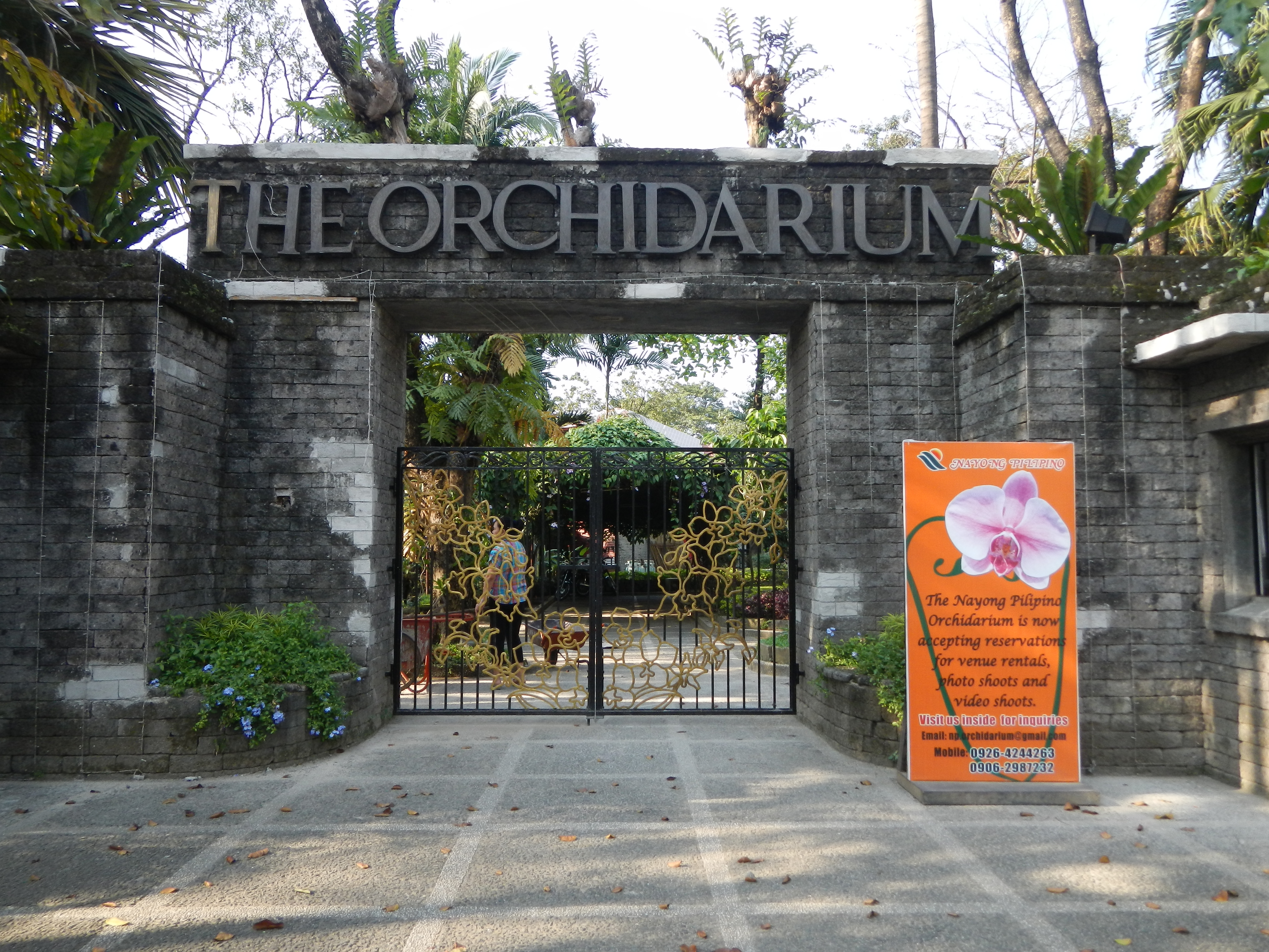 Upload Wizard photos of -- (general description of landmarks, town, church) - Rizal Park[1] also Luneta Park or colloquially Luneta, is an historical urban park located along Roxas Boulevard, [2] City of Manila, Philippines, adjacent to the old walled city of Intramuros. [3] - the Statue of the Sentinel of Freedom February 5, 2004 sculptor is Juan Sajid Imao - [4] - 30-foot bronze statue of Lapu-Lapu, at the Teodoro F. Valencia Circle, Rizal Park in ManilaLapu-Lapu fl. 1521 was a ruler of Mactan, an island in the Visayas, Philippines, who is known as the first native of the archipelago to have resisted Spanish colonization - List of public art in Metro Manila [5] - the Department of Tourism (Philippines)[6] old building which is presently under the National Museum of the Philippines [7] Padre Burgos Avenue, [8] Rizal Park, Ermita, Manila- now transferred to its new Office at 351 Senator Gil Puyat Avenue Makati City, Philippines, 1200.Upload Wizard photos of -- (general description of landmarks, town, church) - Rizal Park[9] also Luneta Park or colloquially Luneta, is an historical urban park located along Roxas Boulevard, [10] City of Manila, Philippines, adjacent to the old walled city of Intramuros. [11] - the Statue of the Sentinel of Freedom February 5, 2004 sculptor is Juan Sajid Imao - [12] - 30-foot bronze statue of Lapu-Lapu, at the Teodoro F. Valencia Circle, Rizal Park in ManilaLapu-Lapu fl. 1521 was a ruler of Mactan, an island in the Visayas, Philippines, who is known as the first native of the archipelago to have resisted Spanish colonization - List of public art in Metro Manila [13] - the Department of Tourism (Philippines)[14] old building which is presently under the National Museum of the Philippines [15] Padre Burgos Avenue, [16] Rizal Park, Ermita, Manila- now transferred to its new Office at 351 Senator Gil Puyat Avenue Makati City, Philippines, 1200 Diorama of Jose Rizal Martyrdom.